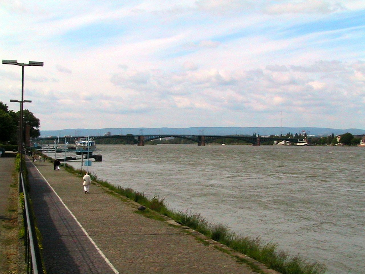 The River Rhein at Mainz (Germany)